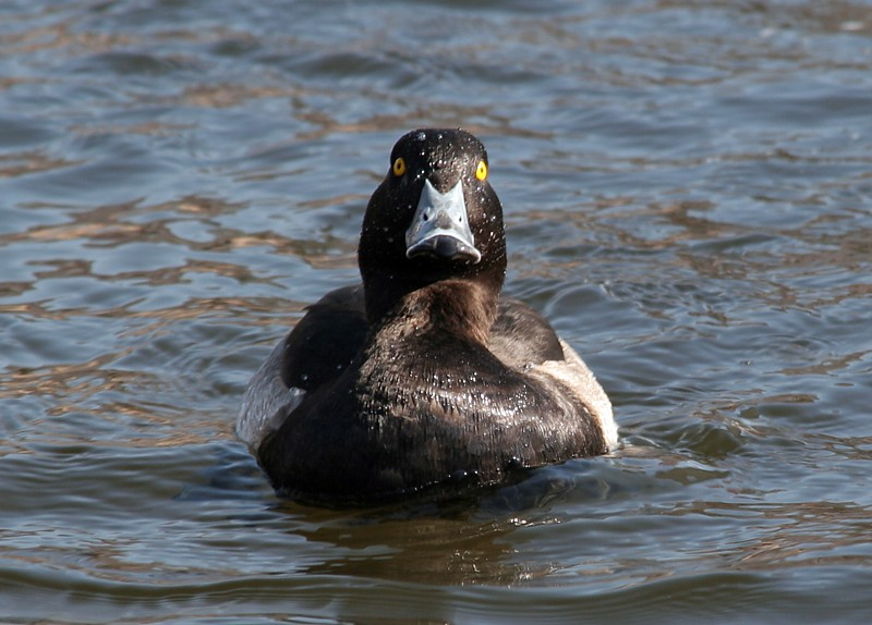 Tufted Duck, Nov. 2005 Yokohama, JAPAN ; In